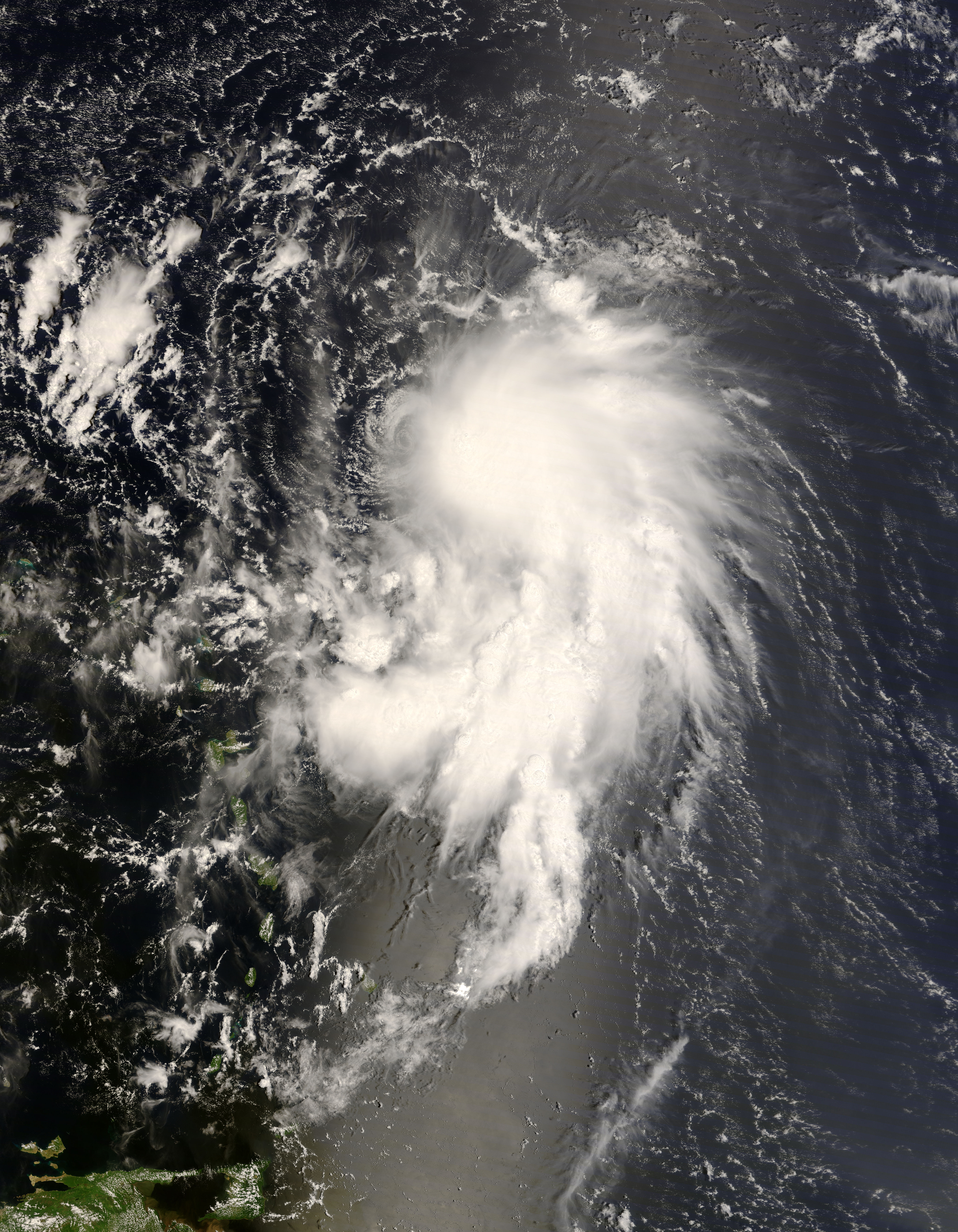 Tropical Storm Hanna off the Lesser Antilles on August 29, 2008.